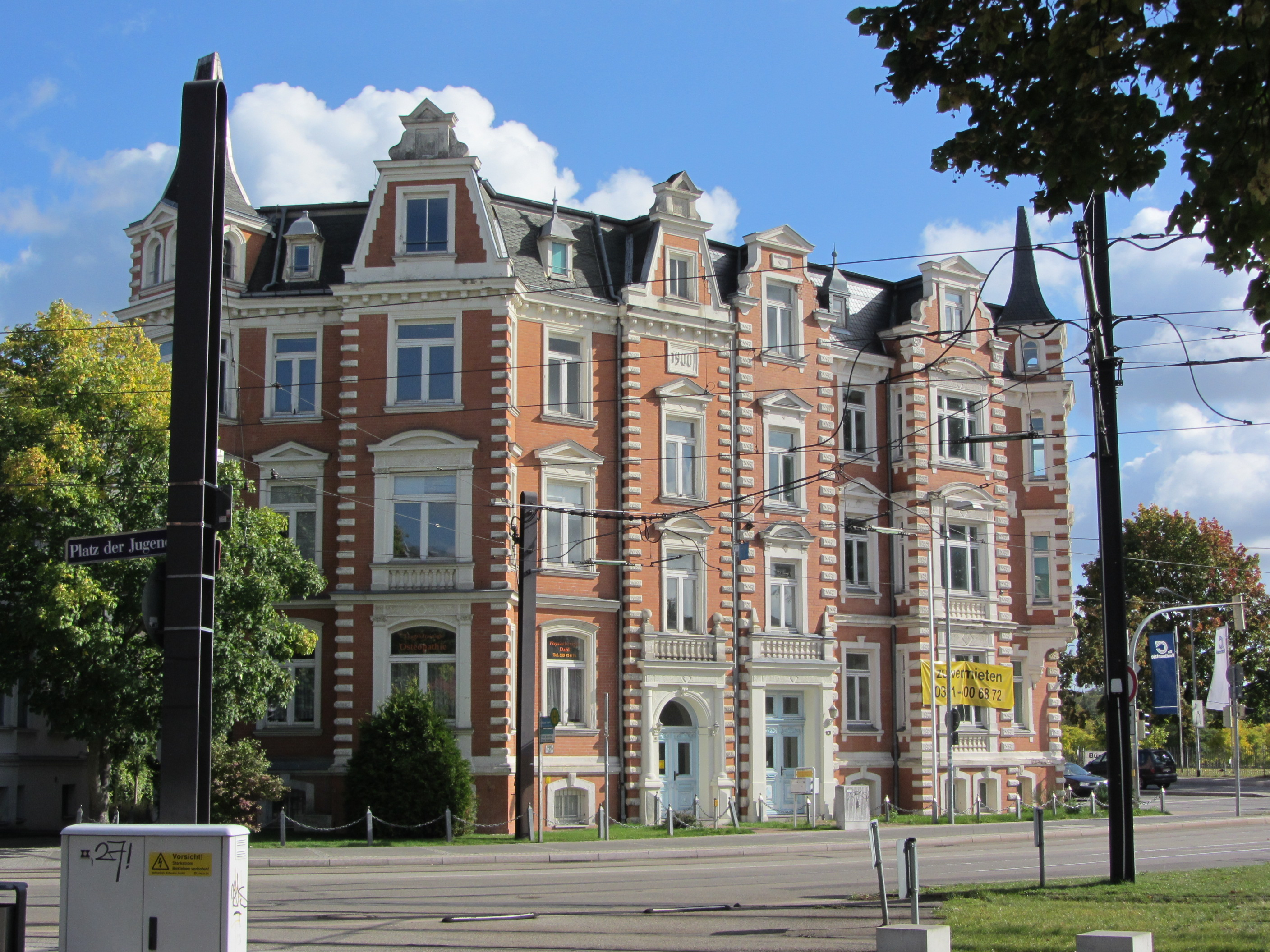 Building Platz der Jugend 8/10 in Schwerin, Mecklenburg-Vorpommern, Germany